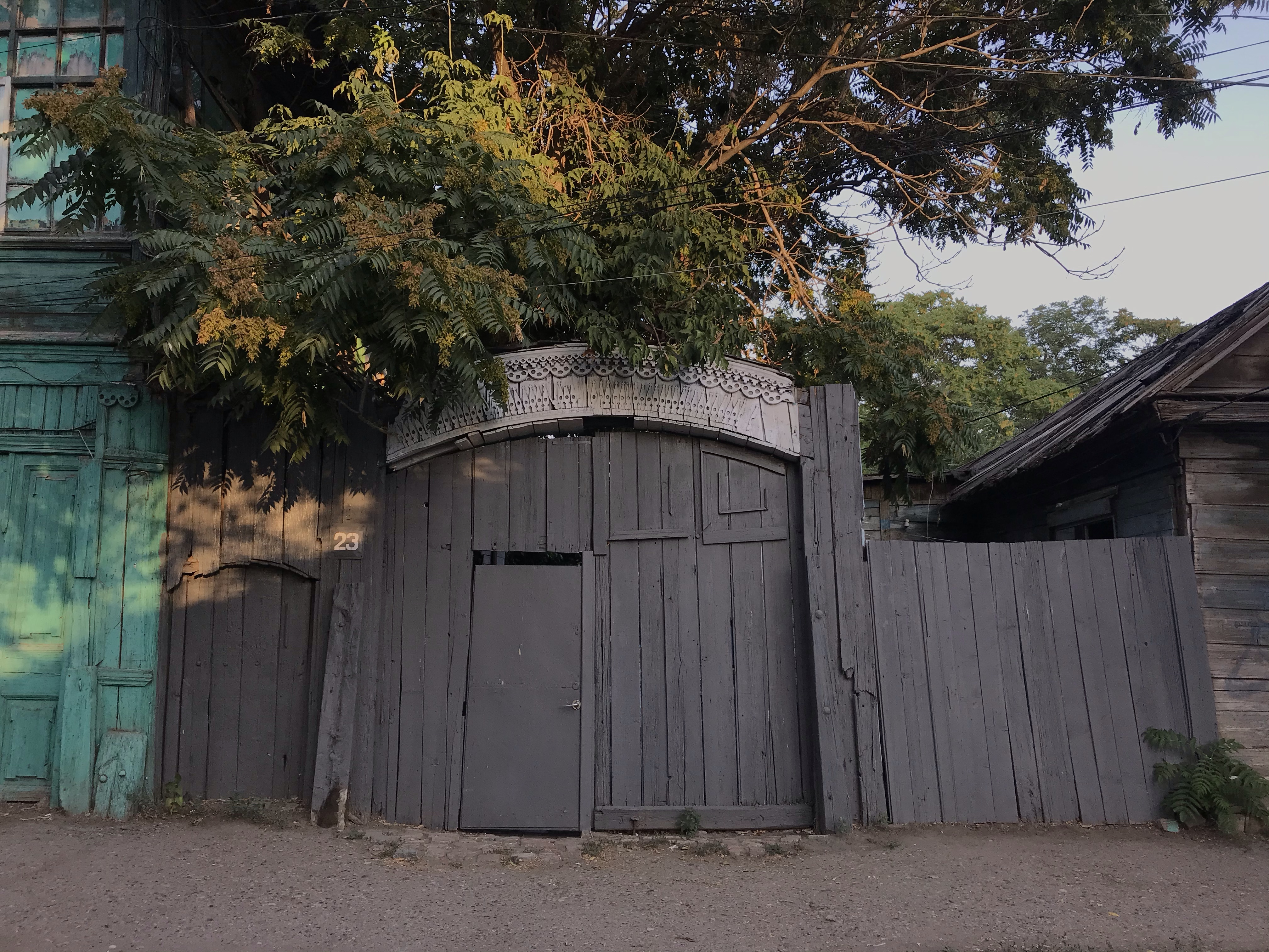 Sen-Simona Street in Astrakhan